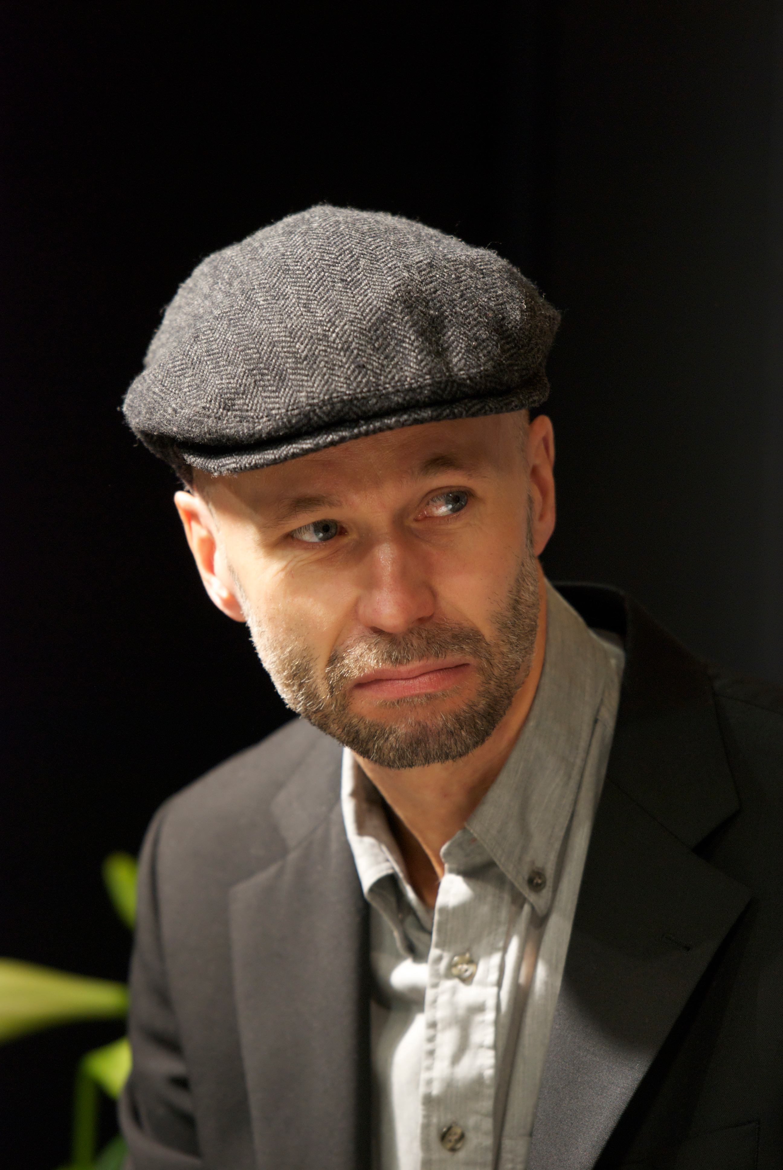 Swedish crime writer Johan Theorin at Göteborg Book Fair 2011.